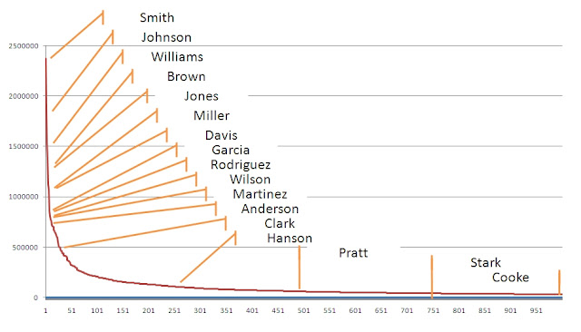 This chart used US Census Bureau data about rank and frequency of American surnames (last names), to give examples of where various surnames occur on a list of the most prevalent 1000 surnames. A power law curve is expressed. X-axis: Rank of surname Y-axis: Frequency of surname